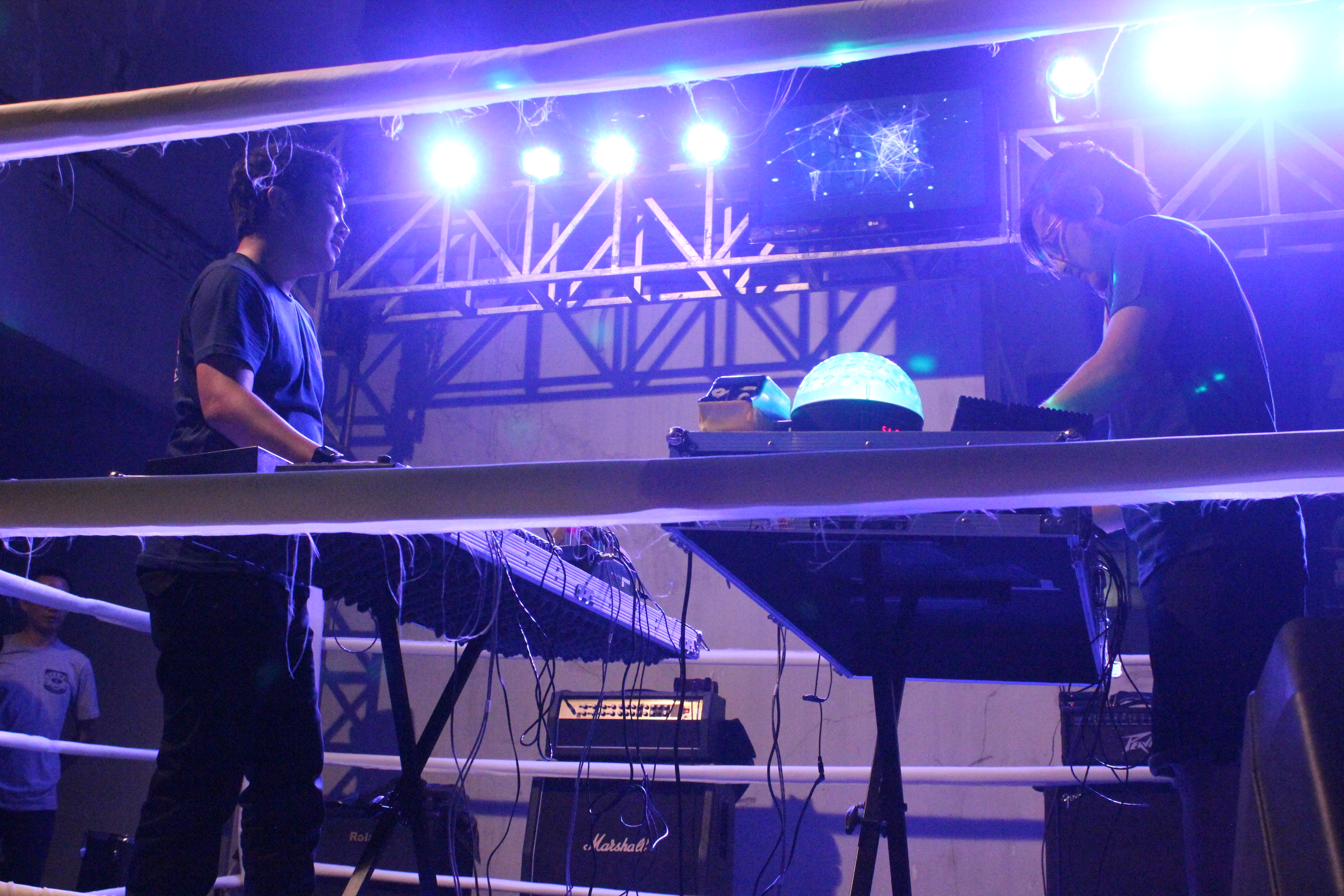 Bottlesmoker performed at Screamous distro opening at Malang, East Java, Indonesia